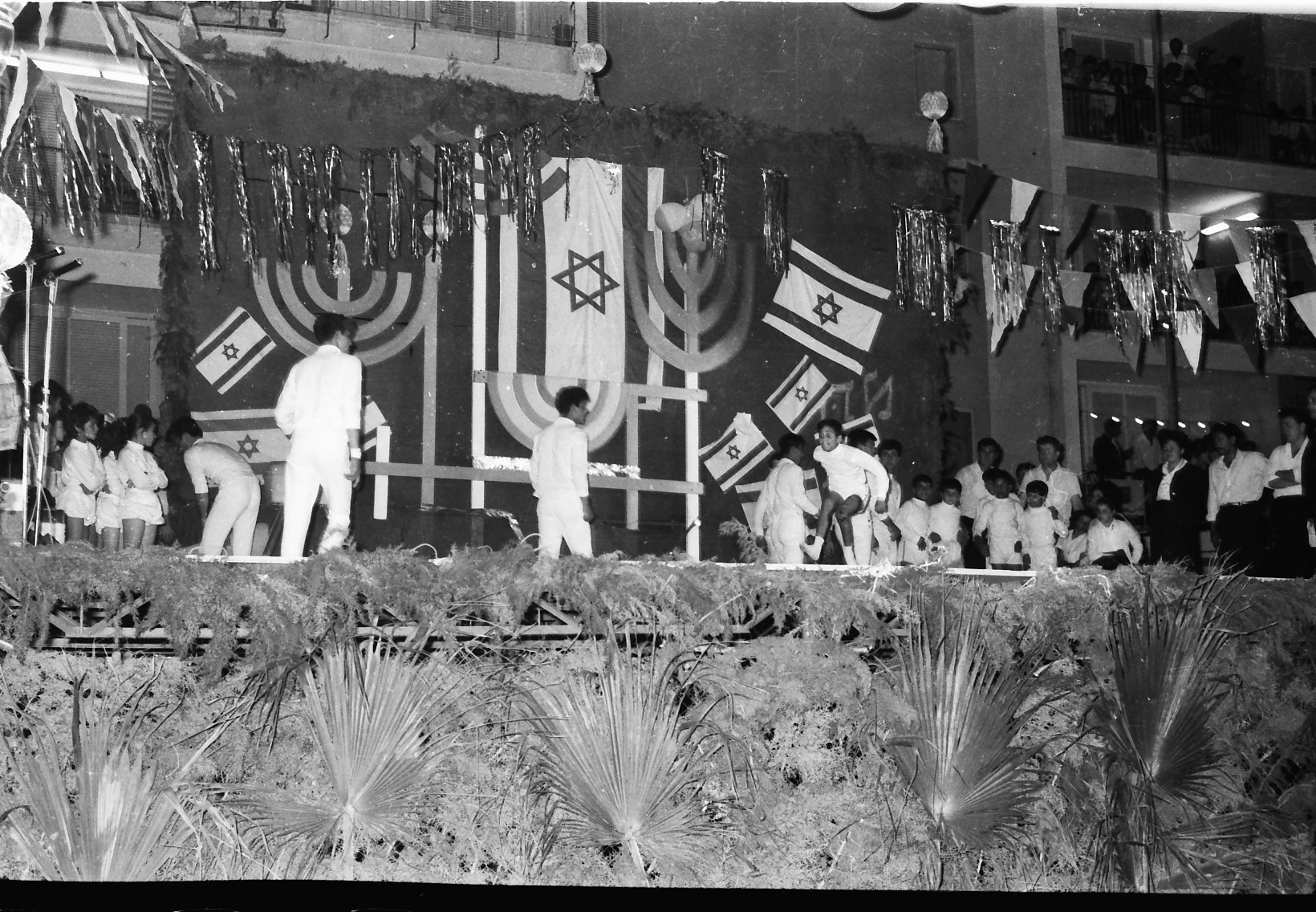 Education in Israel